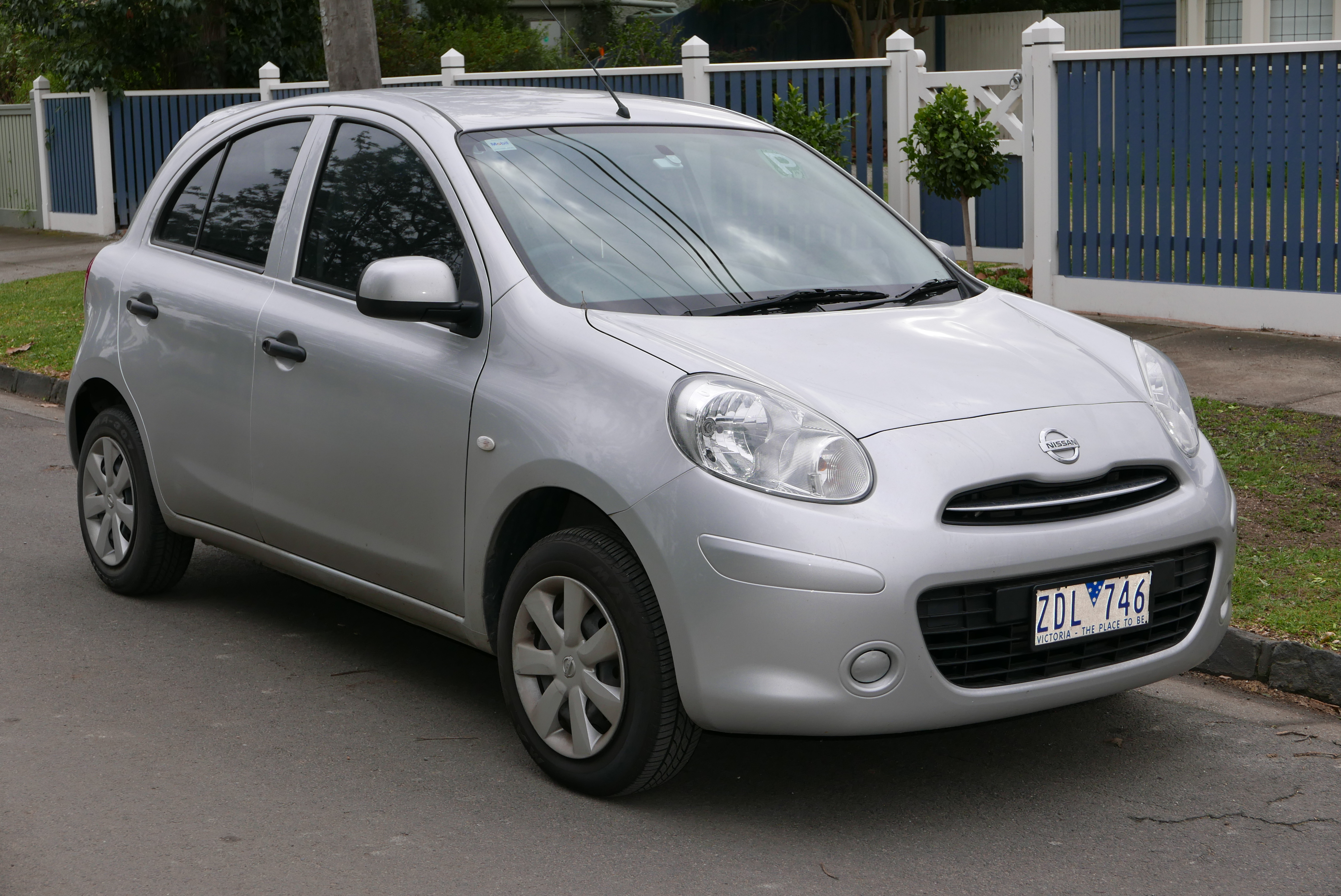 2012 Nissan Micra (K13 MY12) ST hatchback. Photographed in Alphington, Victoria, Australia. Vehicle registration enquiry resultsJurisdictionVictoriaRegistrationZDL746Chassis codeMNTFBUK13A0006143Engine code400419ACompliance date2012-04Year of manufacture2012